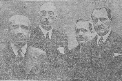 photo showing 4 Carlist leaders during a rally in Bilbao. Left to right: Julian Elorza Aizpuru, Tomas Dominguez Arevalo, Marcelino Oreja Elosegui, Esteban Bilbao Eguia